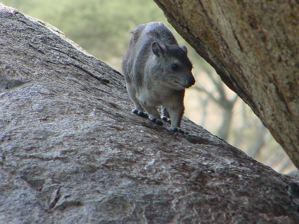 Rock hyrax, Serengeti National Park, Tanzania